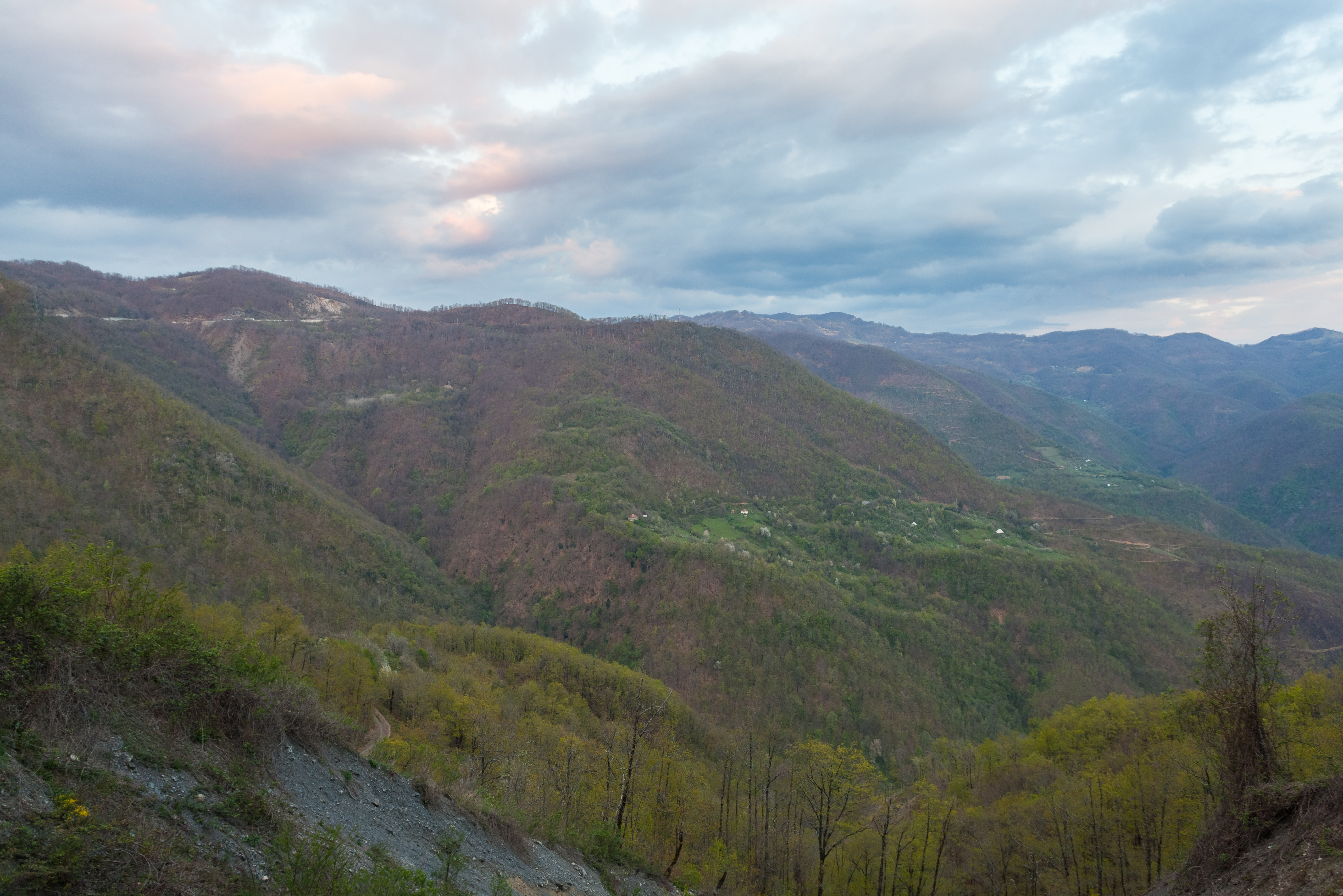 Landscape in Duga, Nikšić, Montenegro